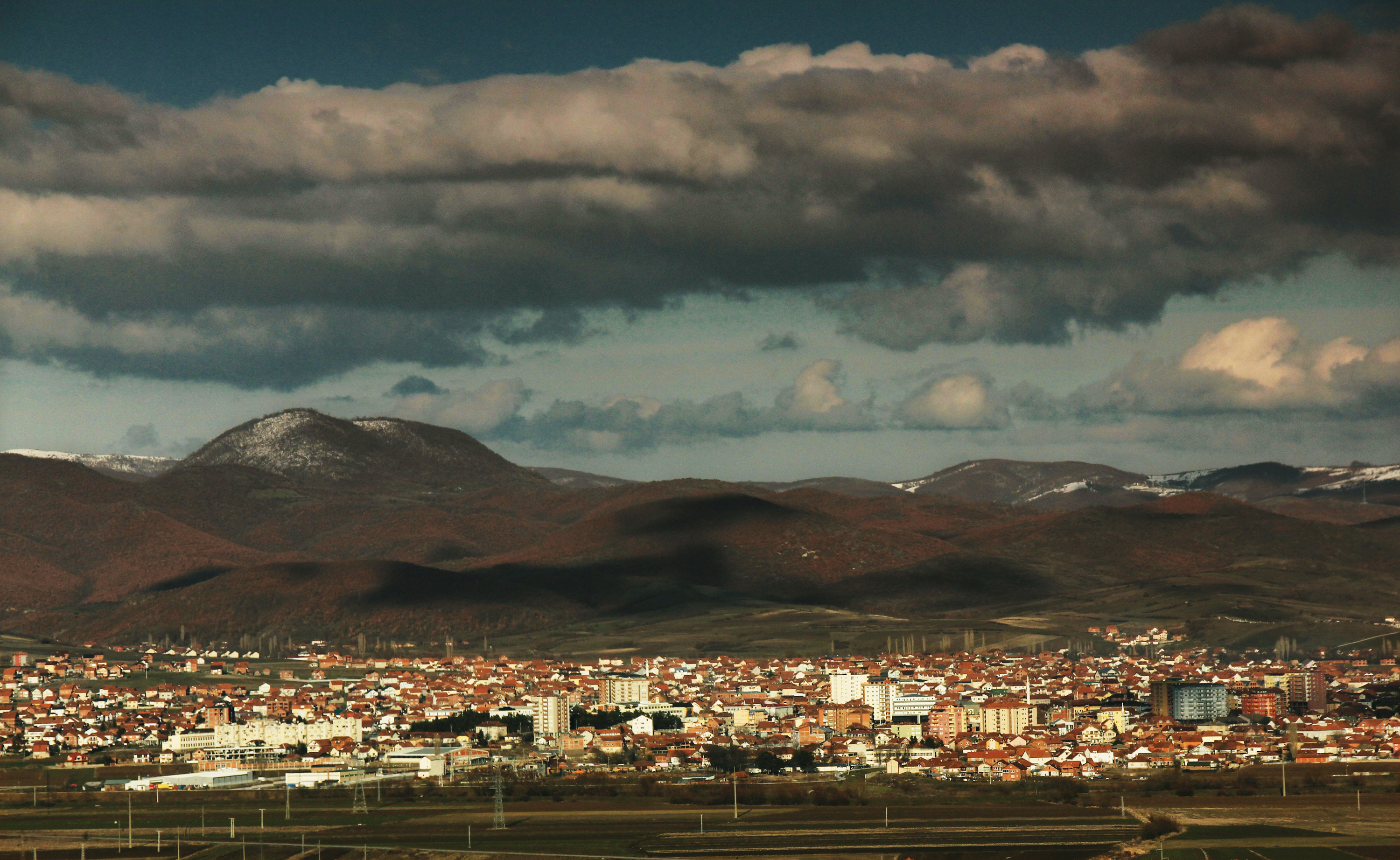 a view from Bukosh